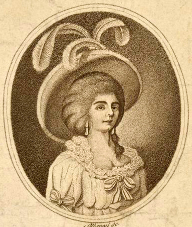 Detail from a contemporay engraving of soprano Adriana Ferrarese del Bene (born c. 1755 - died c. 1804, published by the King's Theatre during her performances there c. 1785.